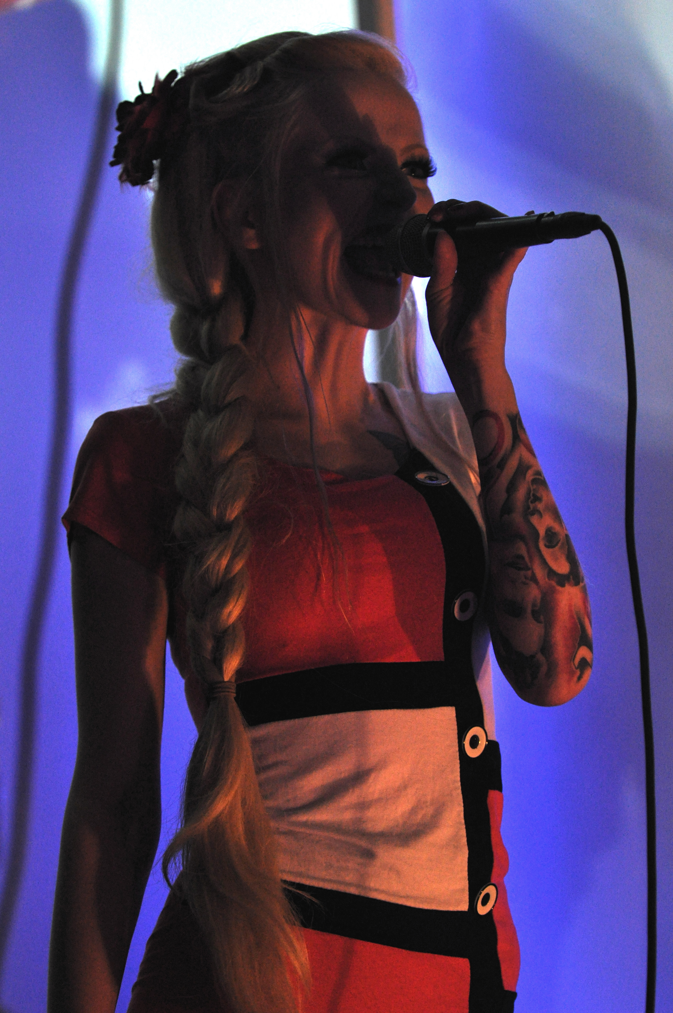 The German Band Welle:Erdball at e-tropolis 2013, Berlin